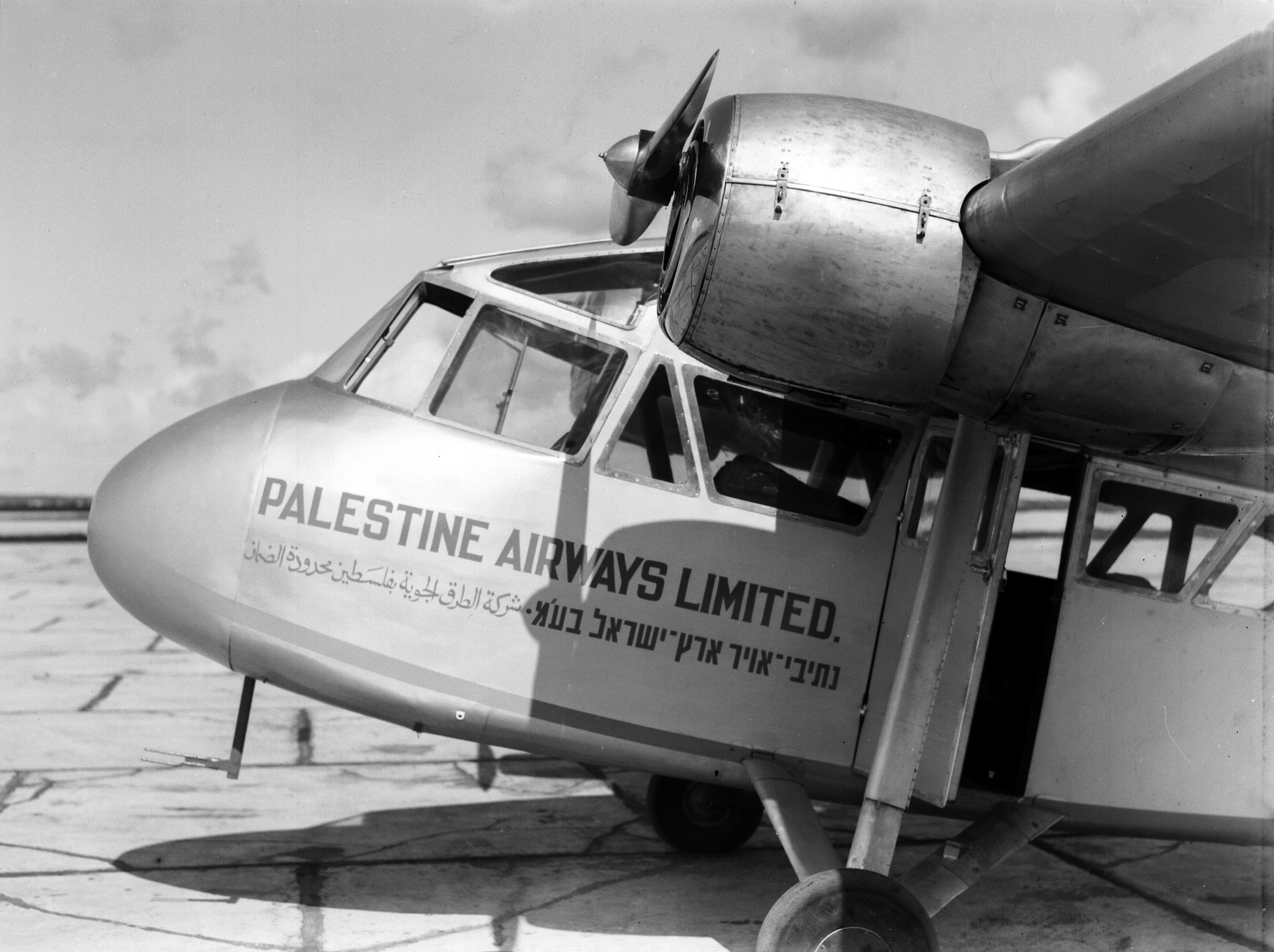 Pobjoy Short Scion, 5 seater airplane, of the Palestine Airways, 1938.